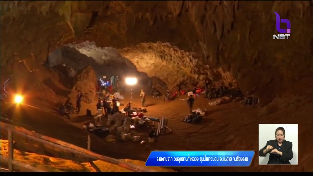 Personnel and equipment in the entrance chamber of Tham Luang cave during rescue operations during 26–27 June 2018. Screen capture from NBT news report.